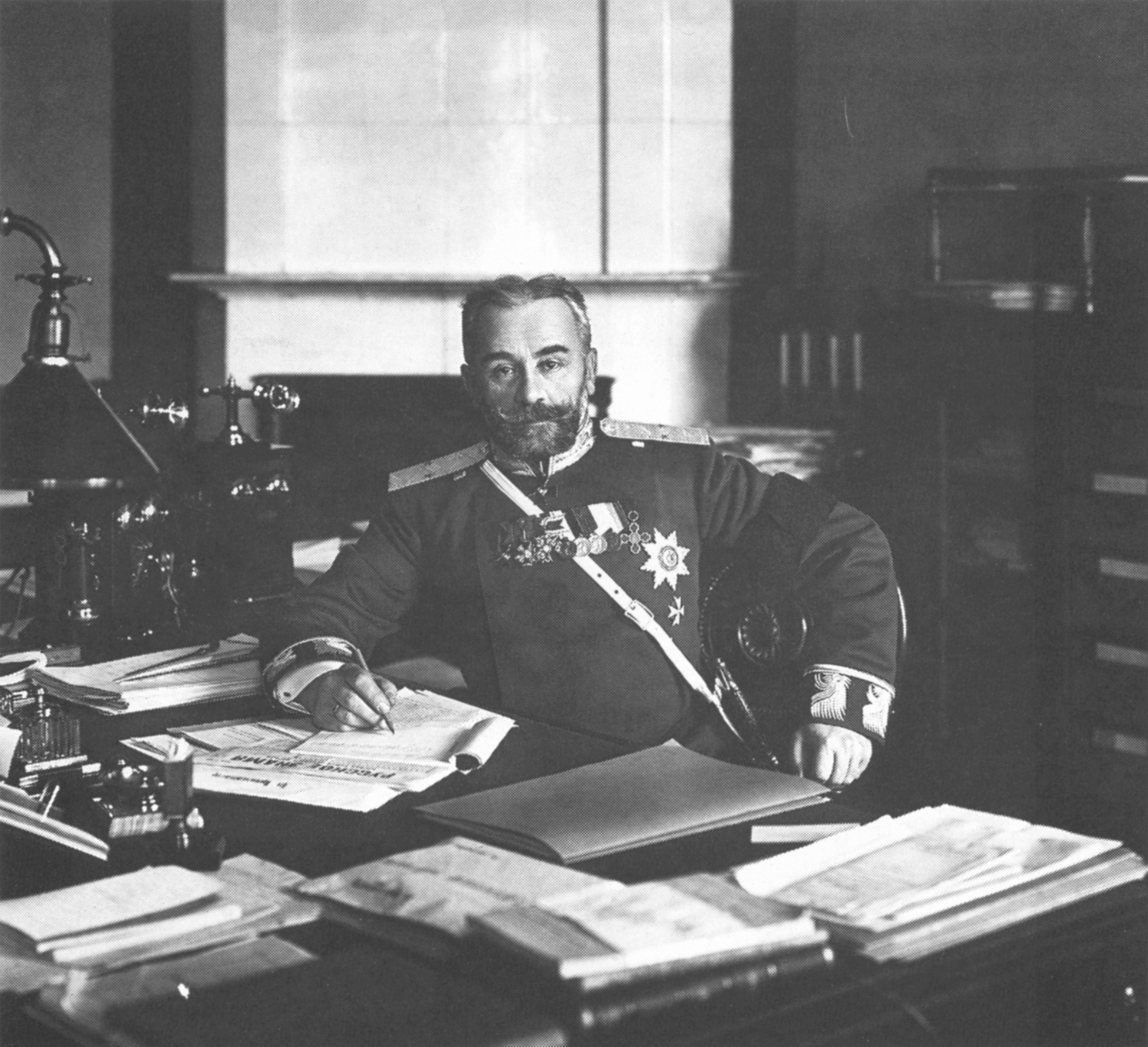 Valadimir Fyodorovich von-der Launitz (1855-1906), was a Russian Major General; St Petersburg's governor. 1906.